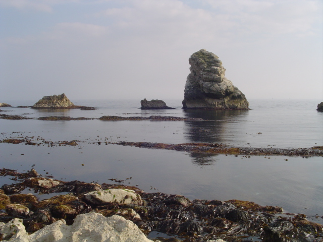 Mupe Rocks. I climbed round the rocks from Mupe Bay and found some of the clearest water I've seen along the South Coast.